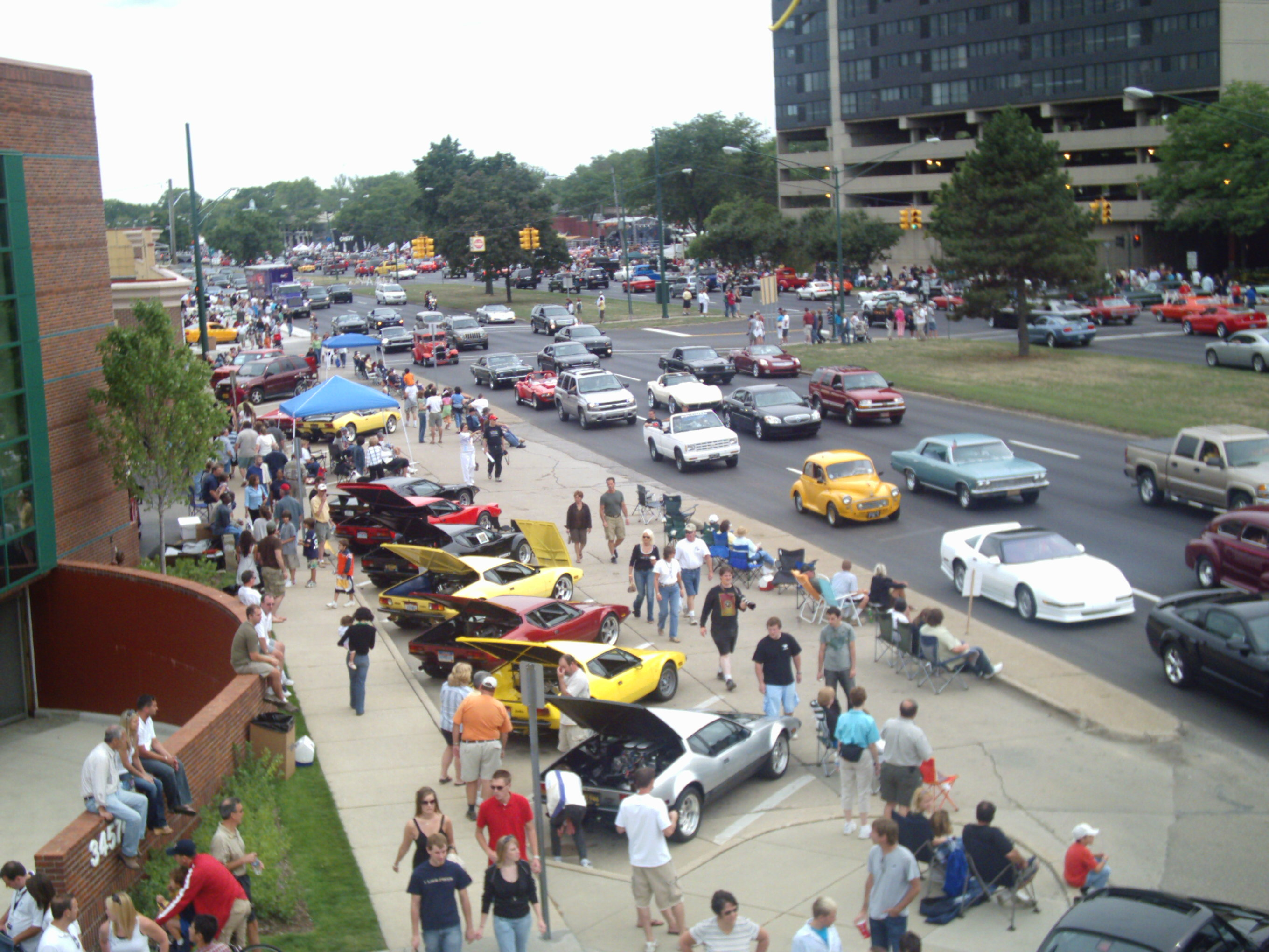 Description: A photo of the 13th Annual Woodward Dream Cruise taken from atop a building located on Woodward Ave. in Birmingham, MI. Self-made at a section of Woodward Ave. located just south of 15 Mile Road in Birmingham, MI.